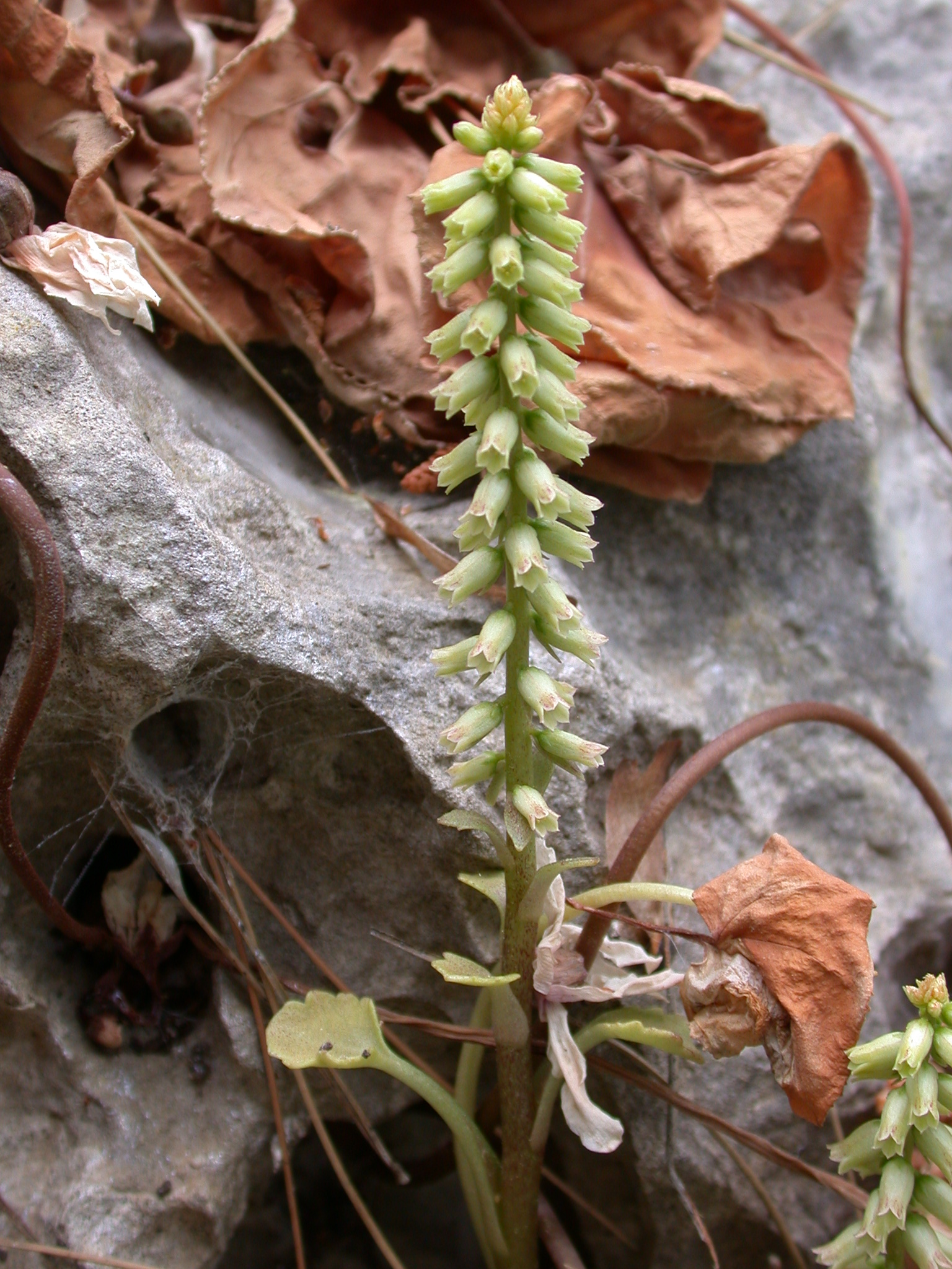 Umbilicus intermedius Boiss. (טבורית נטויה), Mount Carmel, Israel, April 2008. Other names: Cotyledon intermedius (Boiss.) Bornm.